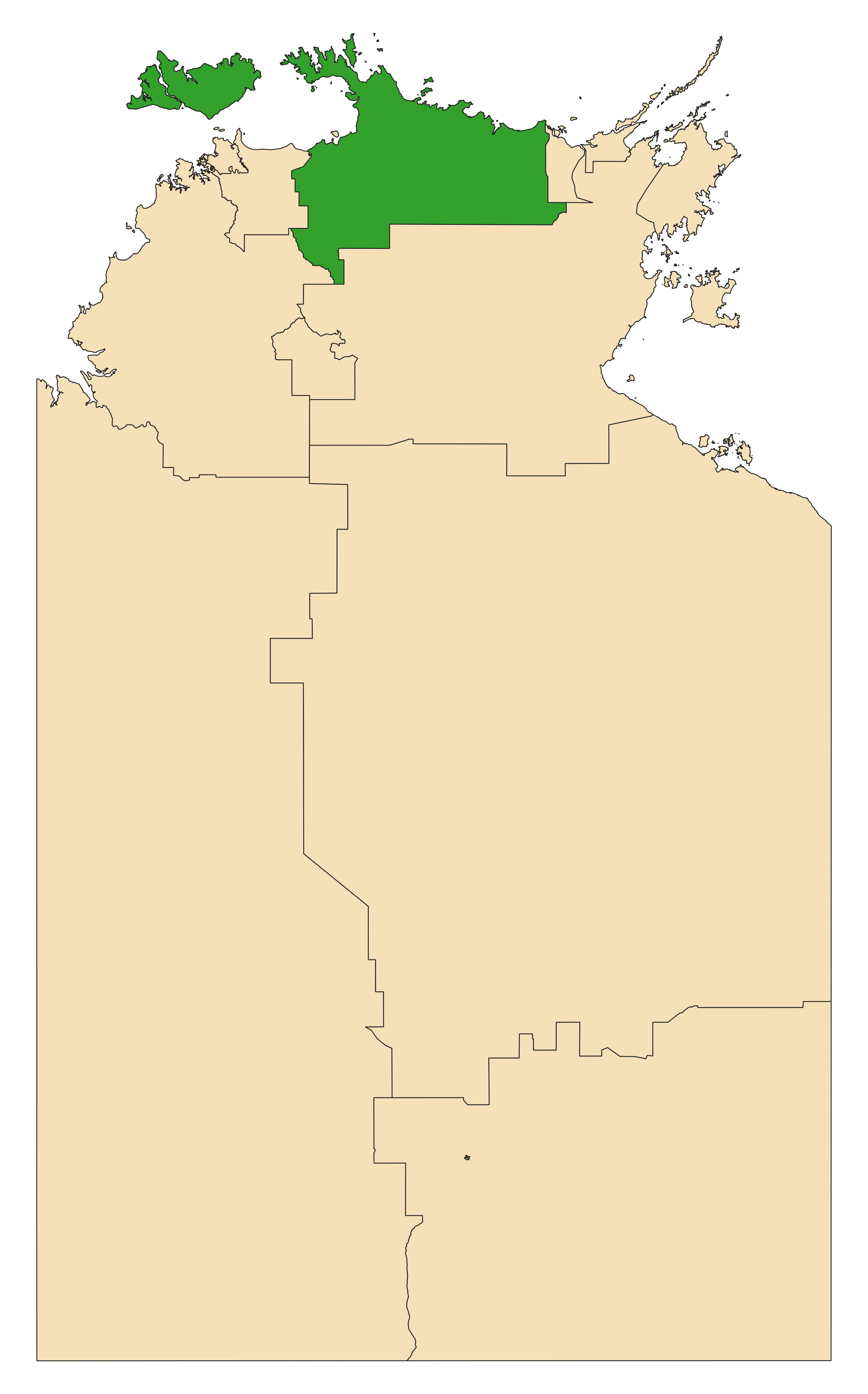 Location of the electoral division of Arafura (dark green) in the Northern Territory at the 2020 Northern Territory election